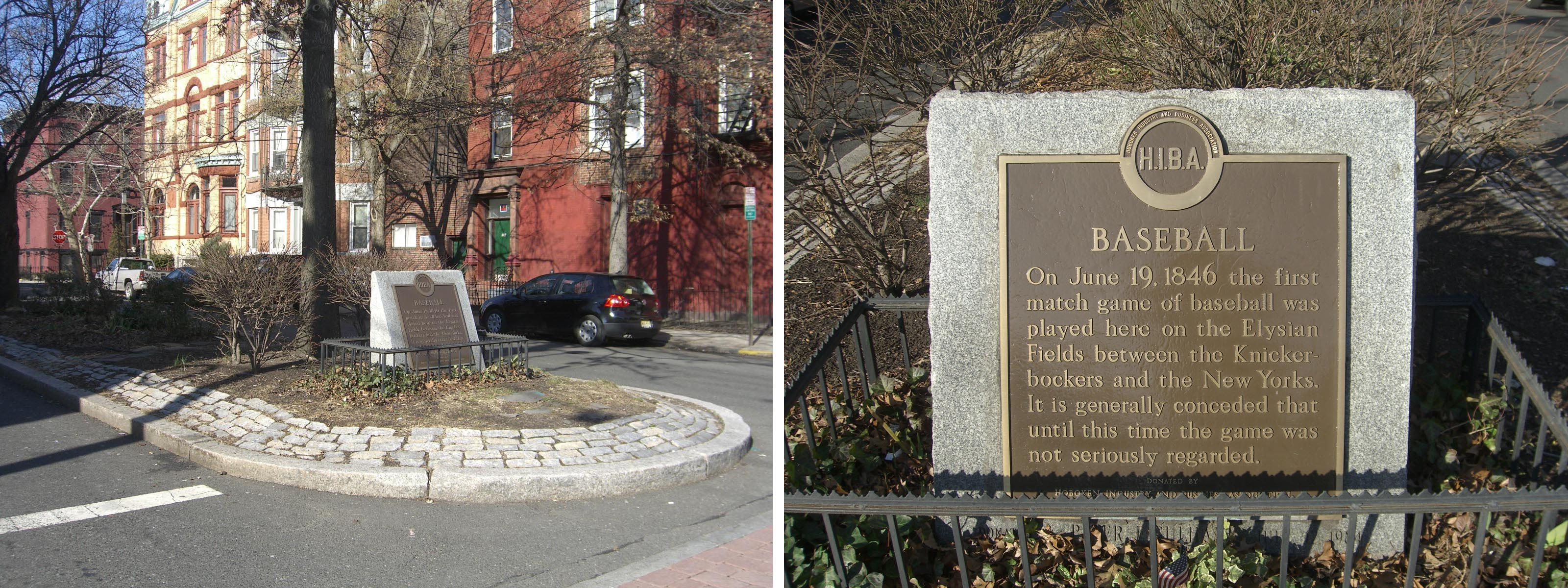 A historical marker at the intersection of 14th Street and Washington Street in Hoboken, New Jersey, the former location of Elysian Fields, where the first recorded game of baseball took place. Photo by Luigi Novi. This photo may be used for any purpose, provided that the photographer is visibly credited in each instance where it is used. For further information on the Licensing requirements (See Licensing information below), contact me here.